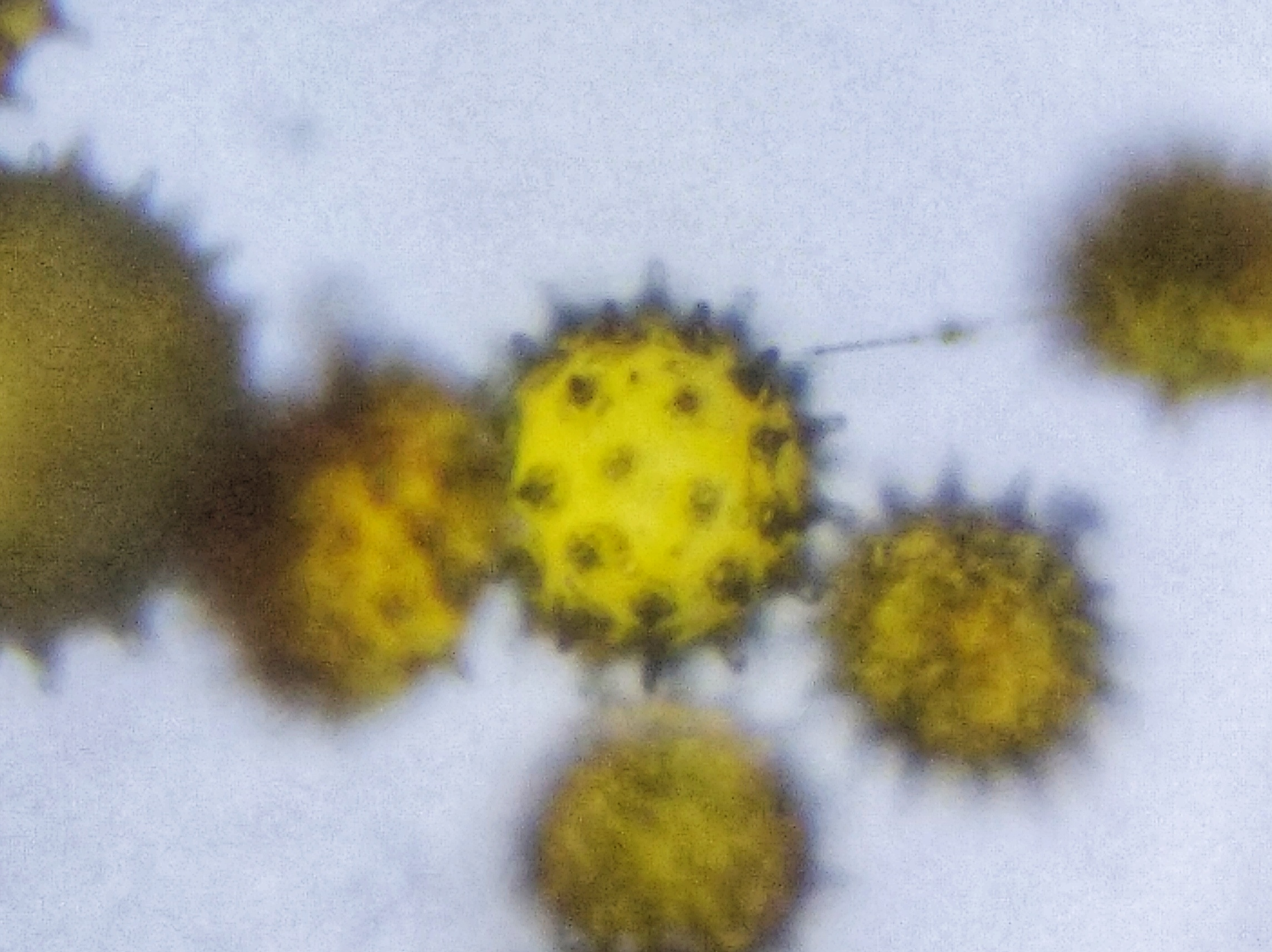 Pollens of Hibiscus